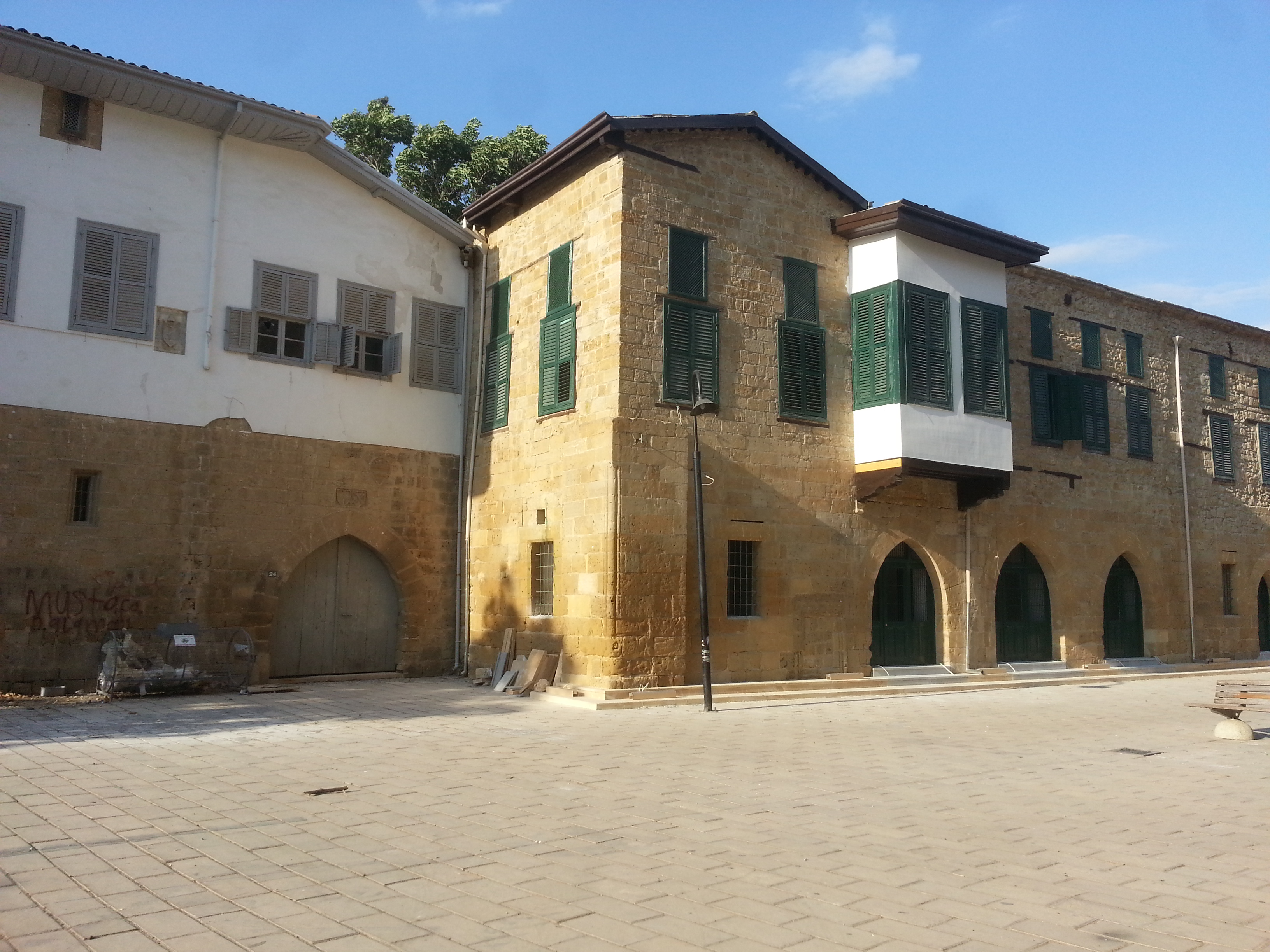 The façade of the Kadı Menteş Mansion facing the Selimiye Square, in North Nicosia, Northern Cyprus.